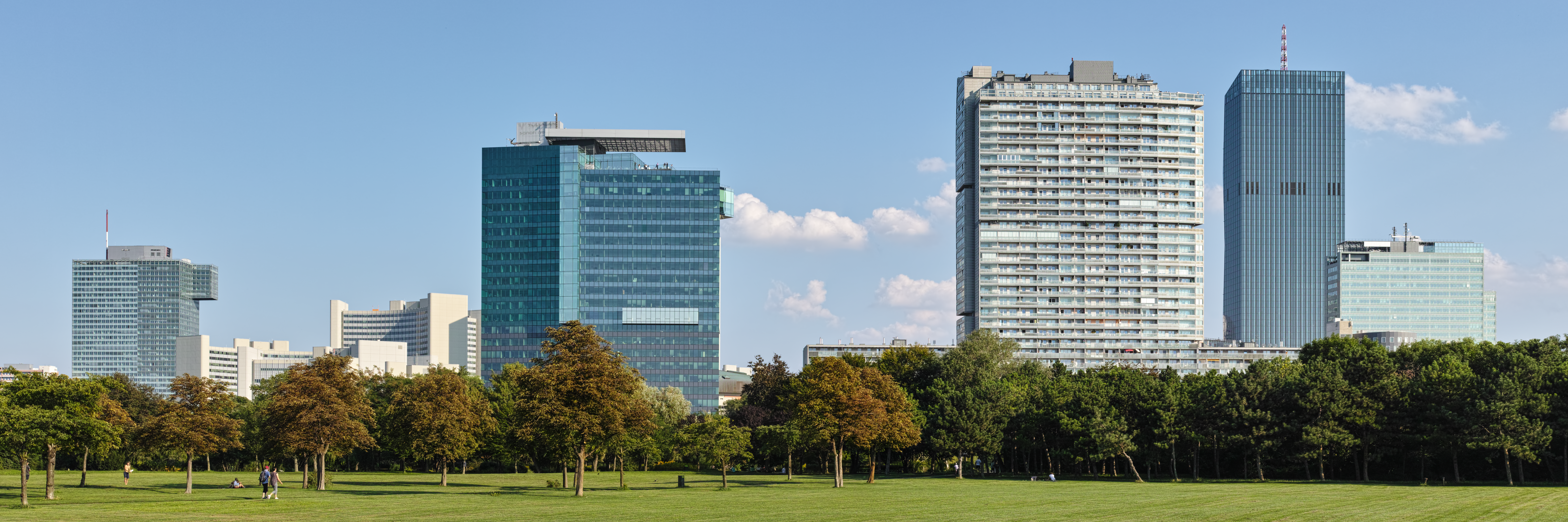 The Donau City as seen from the Donaupark on August 8, 2014 (cropped version).